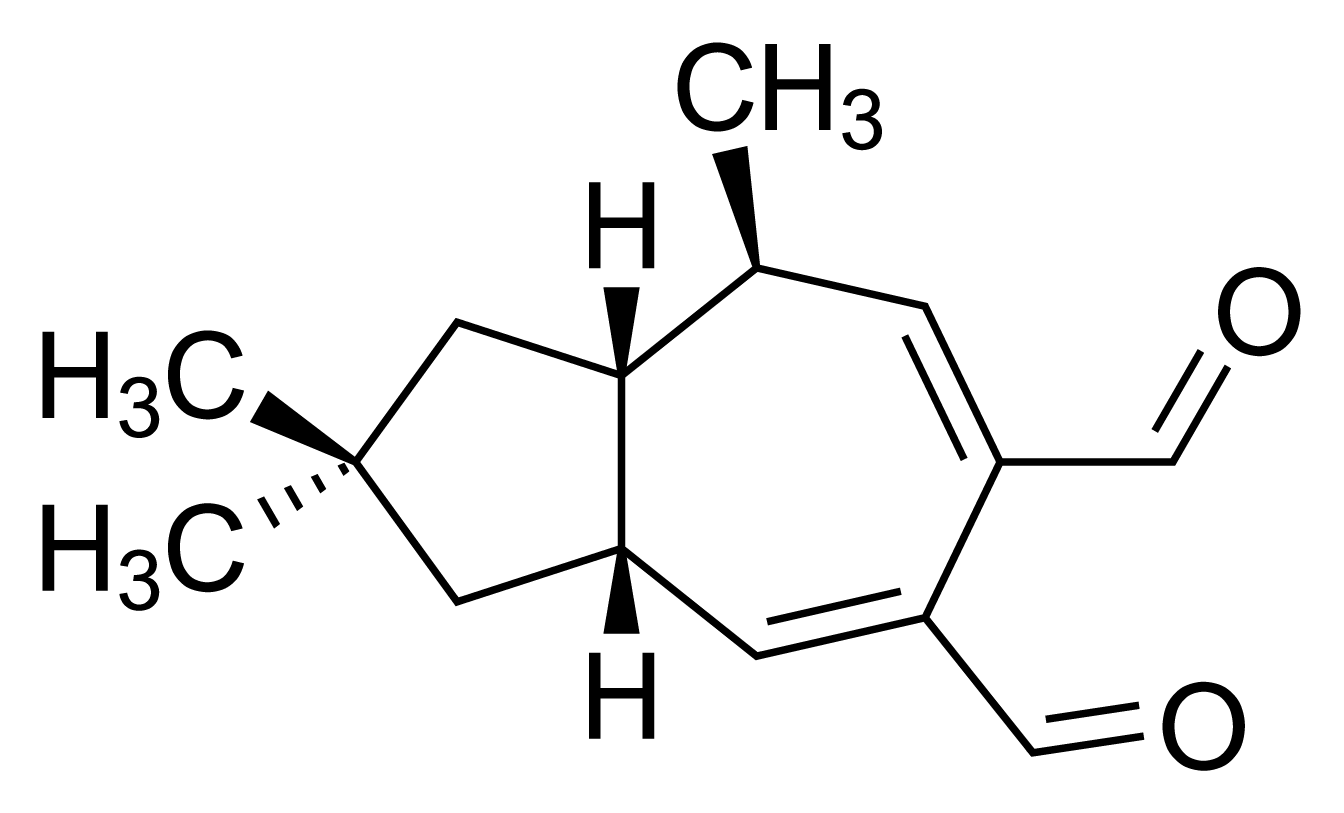 The 2D structure of the sesquiterpenoid velleral (2,2,8-trimethyl-1,2,3,3a,8,8a-hexahydro-5,6-azulenedicarbaldehyde).